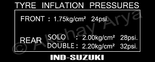 Ind Suzuki Tire Pressure